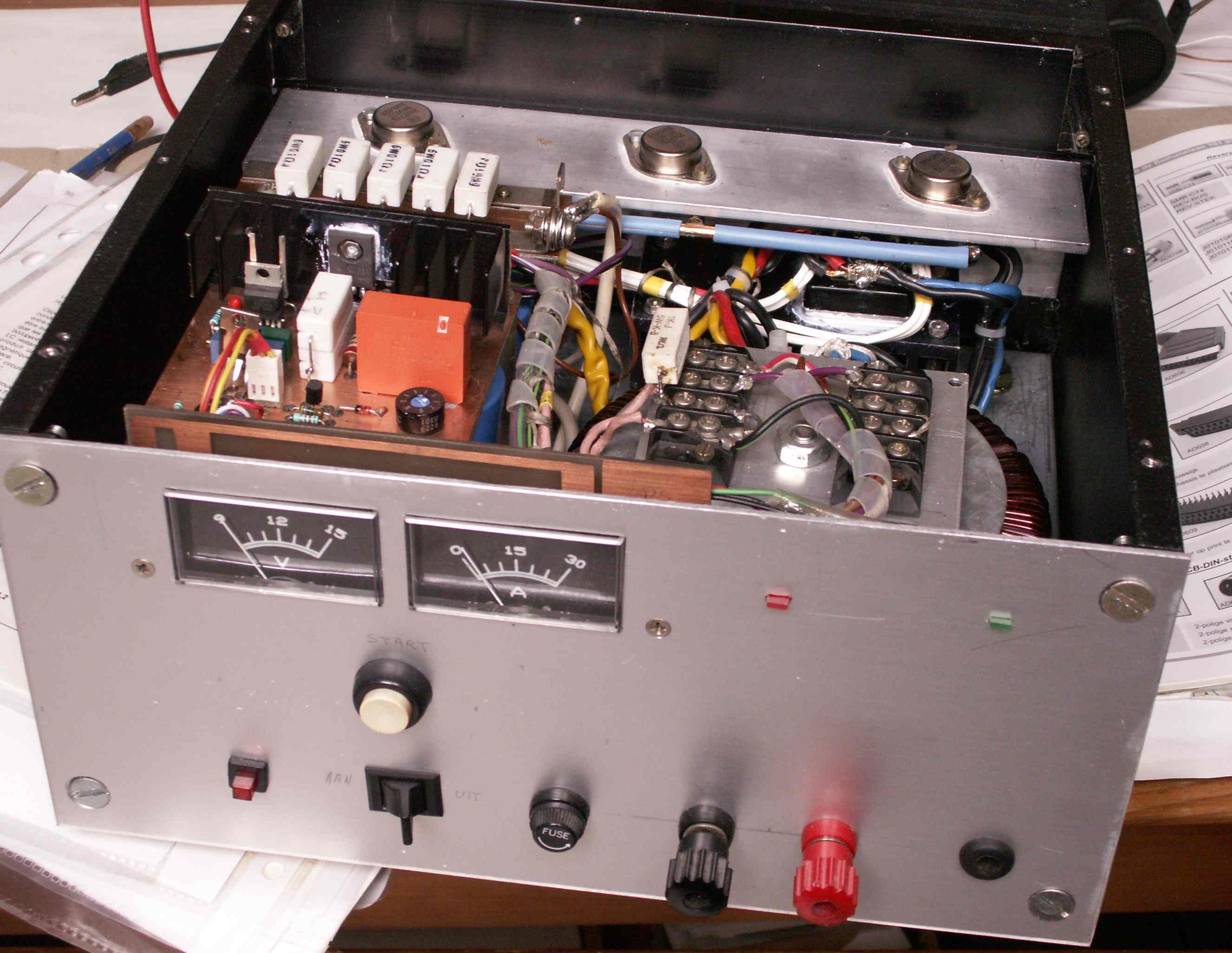 A power supply unit for powering amateur radio equipment. The unit is made entirely DIY.